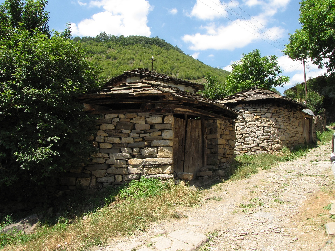 Old houses in Gostusa